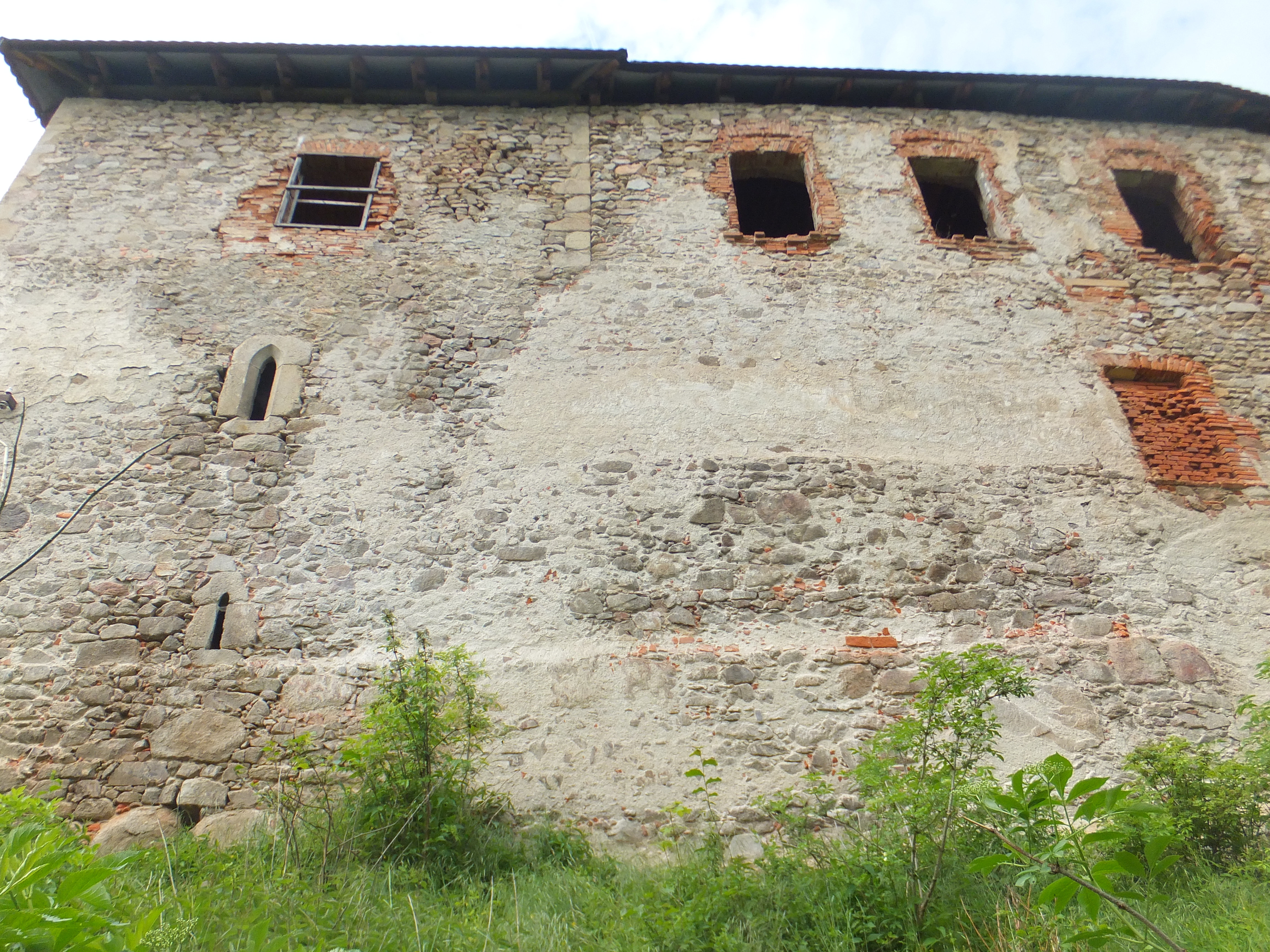 The Castle Kopec